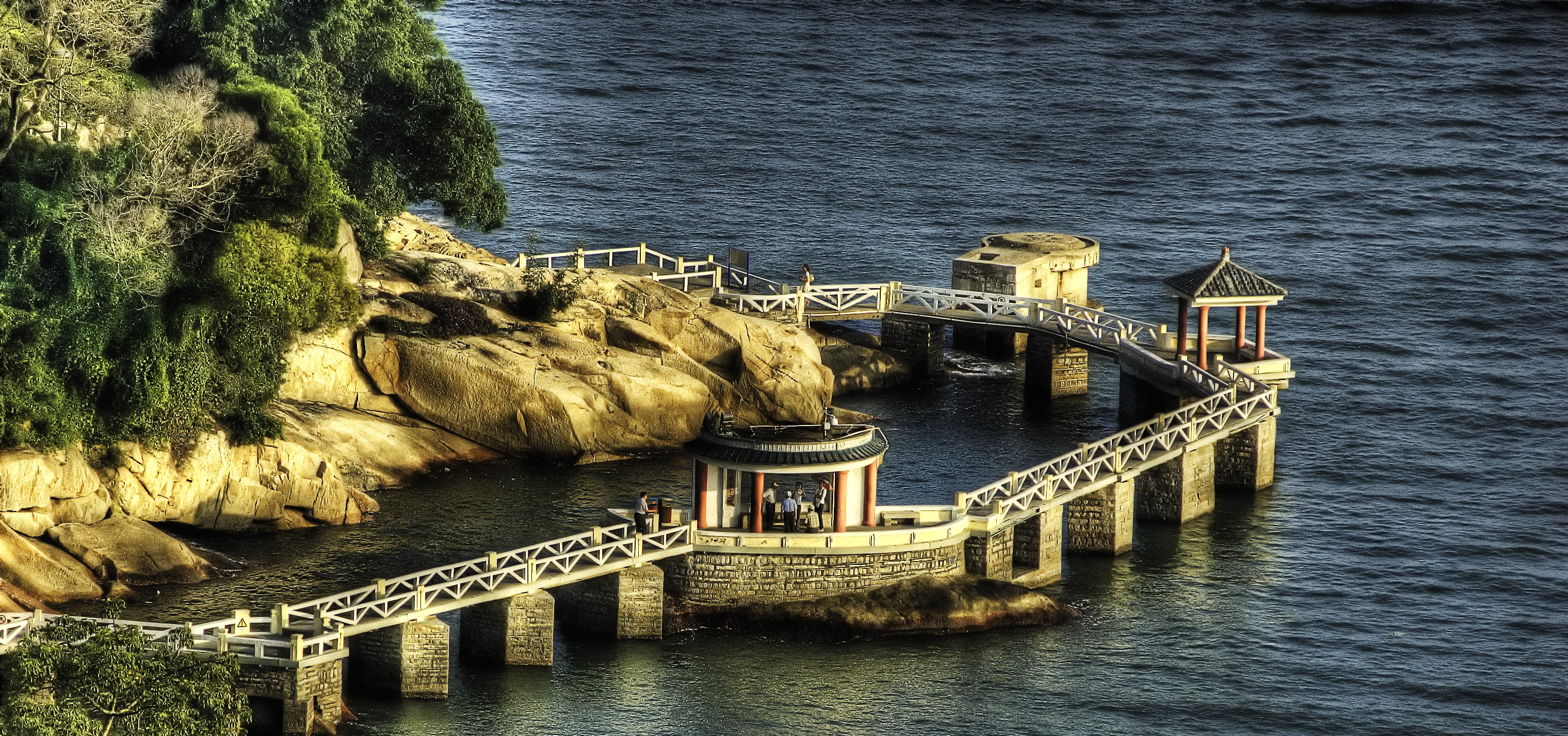 The island of Gulangyu is a pedestrian only destination, where the only vehicles on the islands are several fire trucks and passenger transport vehicles. The narrow streets on the island, together with the architecture of various styles around the world, give the island a unique appearance.